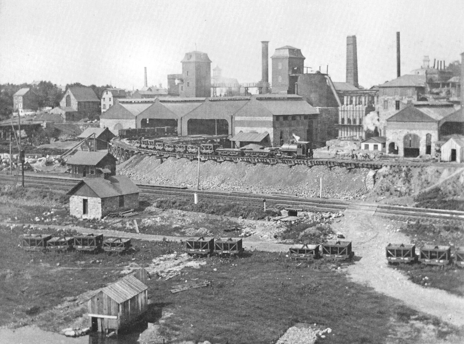 Allentown Iron Works